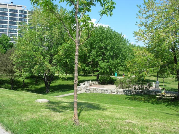 Nuns' Island